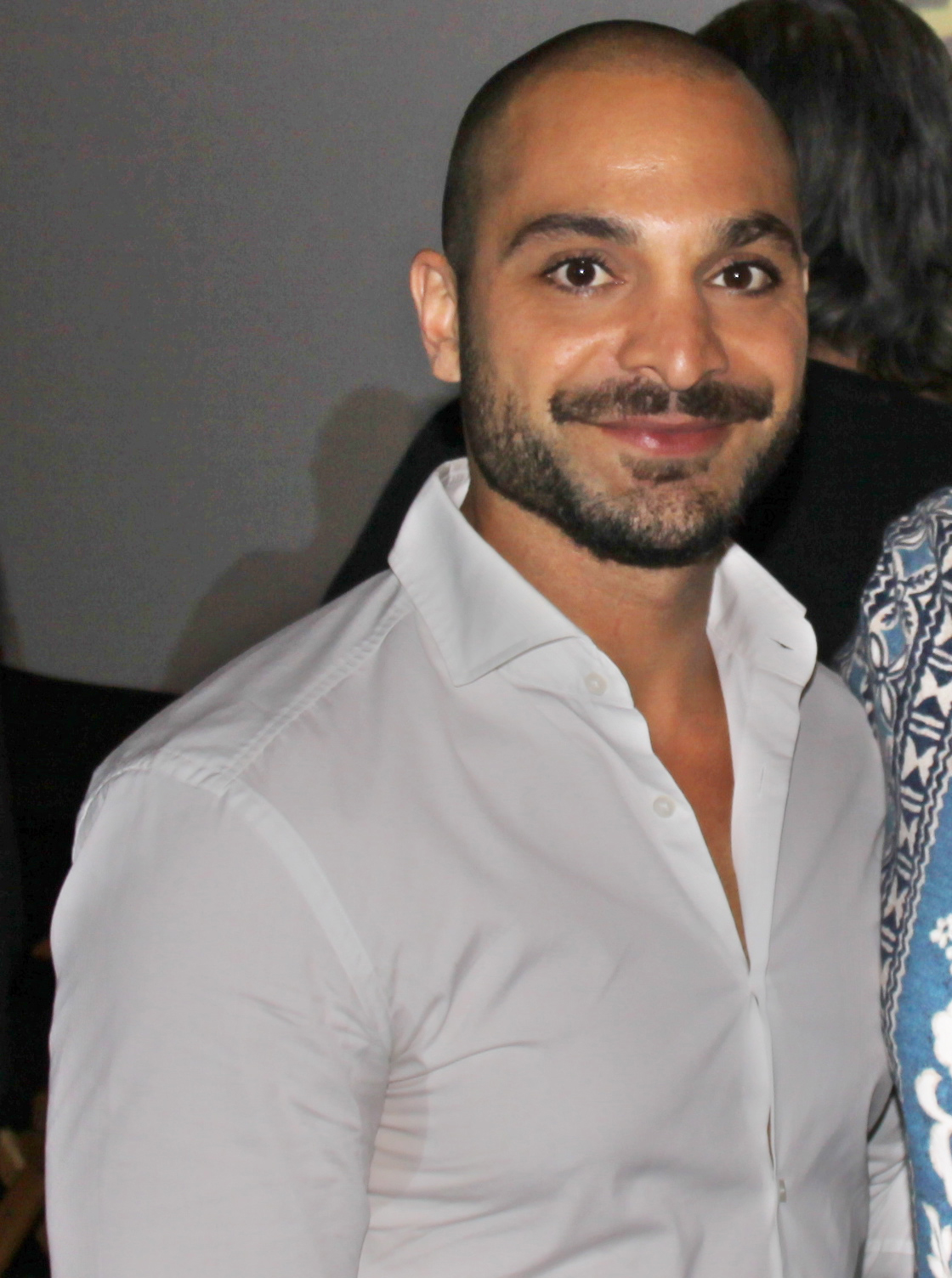 Michael Mando from Better Call Saul and Orphan Black